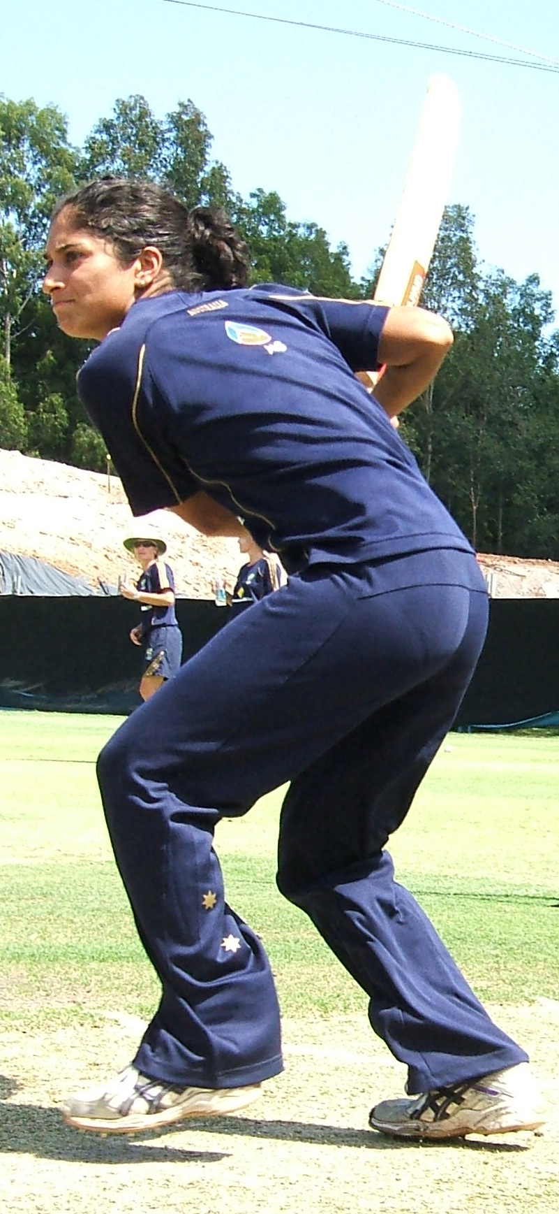 Named person engaging in named action at Adelaide Oval nets/training ground